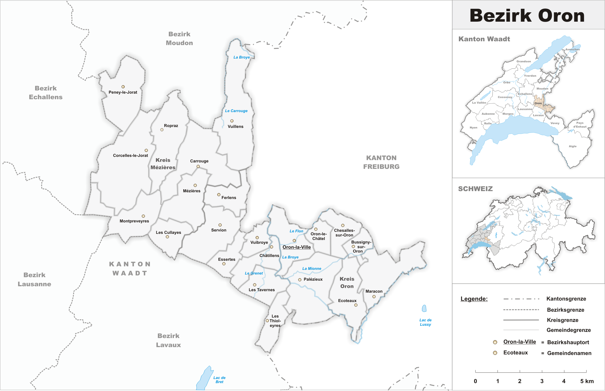 Municipalities in the district of Oron